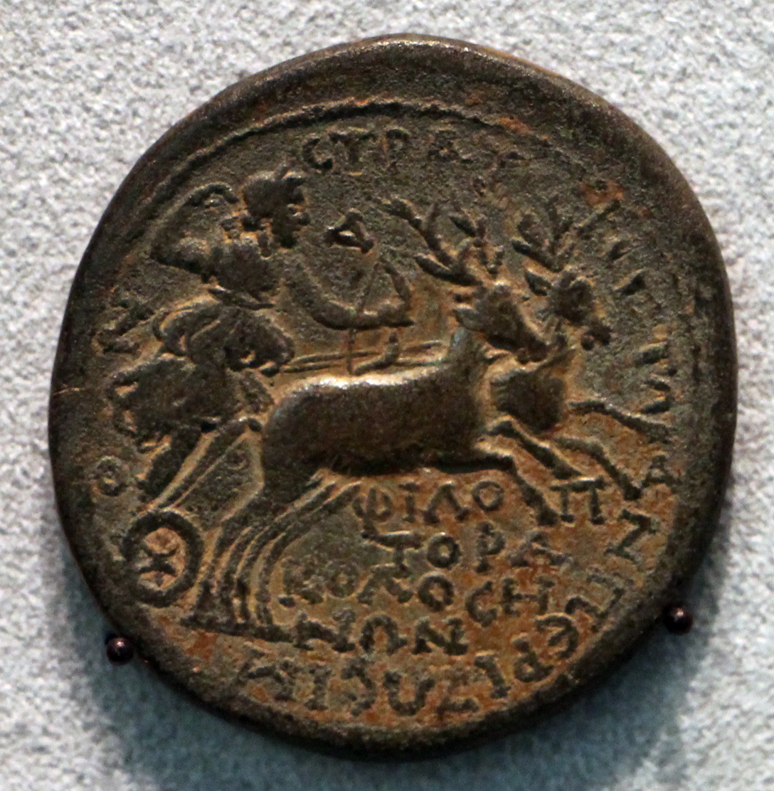 Ancient Roman coins in the Altes Museum Berlin, from Kolossai, with Artemis on chariot and two deers pulling the chariot, 180-192. Inscription includes: Ο Ν CΤ??? ΠΕΡΙΖΩCΙΣ ΦΙΛΟΠΑΤΟΡΑ (PHILOPATORA) ΚΟΛΟCΗΝΩΝ (KOLOSSINON)